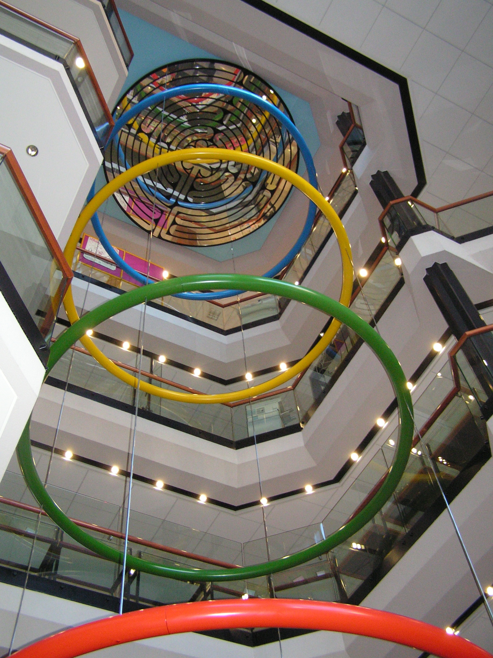 Artist :Gianfredo Camesi Title : "Spirale - Labyrinthe" Bibliothèque de la Cité, Geneva,Switzerland. 1991.